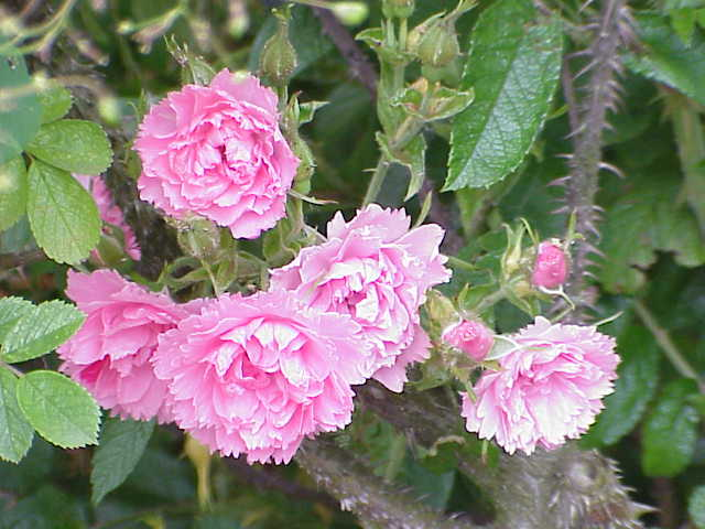 Species: Rosa rugosa Family: Rosaceae Cultivar: Pink Grootendorst, Grootendorst 1923 Image No. 7